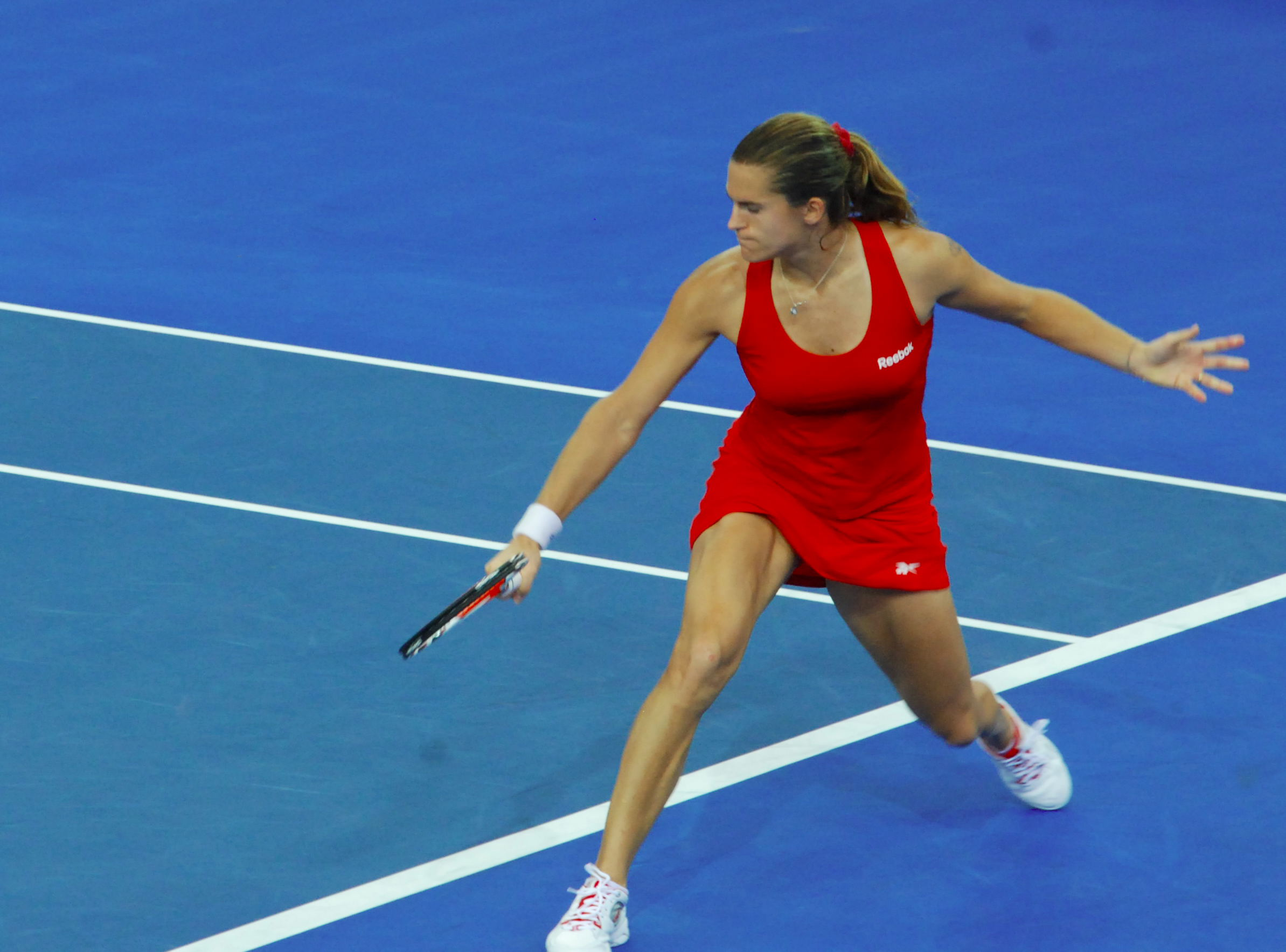 Amélie Mauresmo at 2009 Brisbane International, Brisbane, Australia